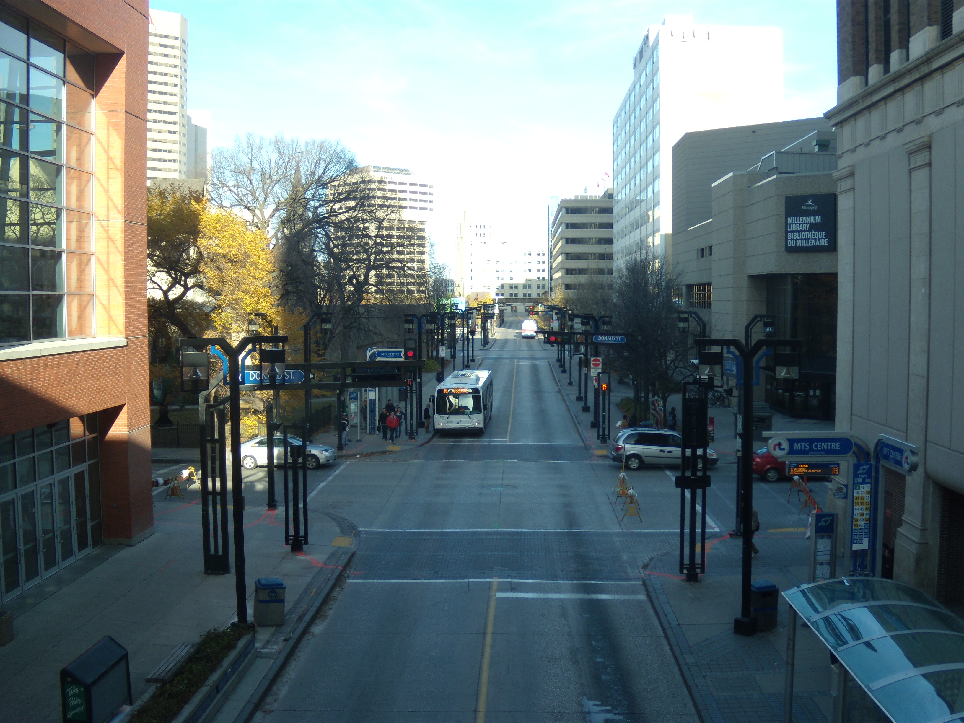 Looking east along Graham Avenue Transit Mall in Winnipeg, Manitoba as seen from the Winnipeg Walkway connection between the MTS Centre and cityplace mall.